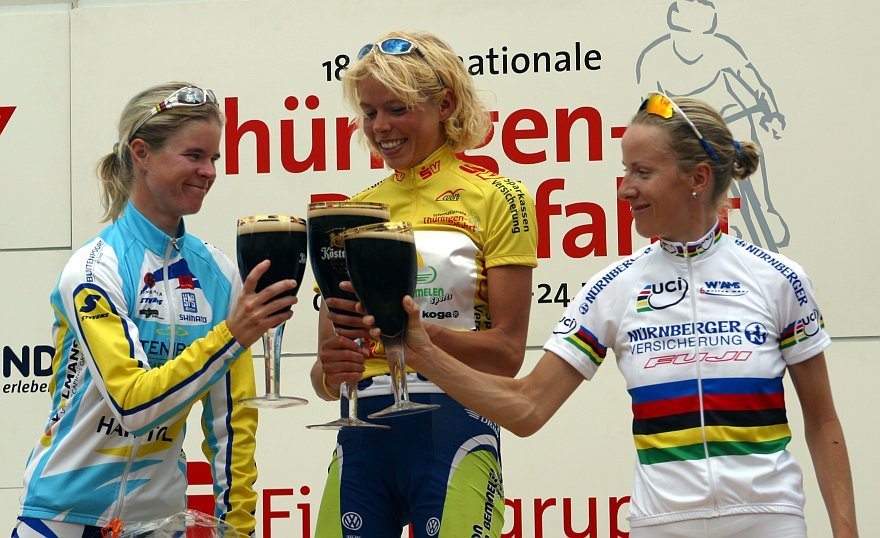 Final podium of the Thueringen Rundfahrt 2005: Susanne Ljungskog, Theresa Senff, Judith Arndt